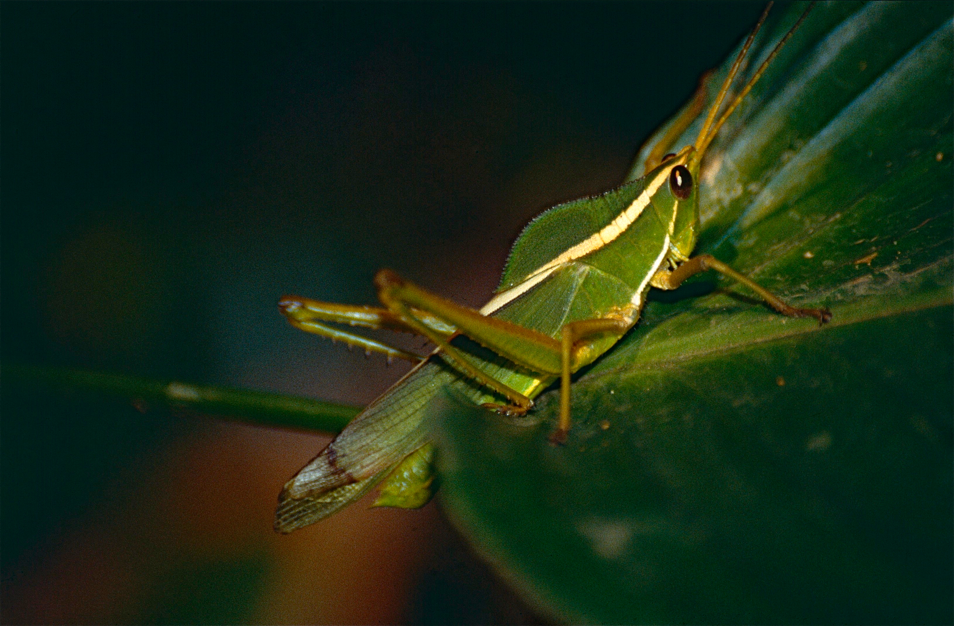 Sentier du Rorota, Rémire-Montjoly, Guyane, FRANCE Scanned Slide from 1998